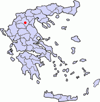 locator map, based on Image:Prefectures Greece grey.png